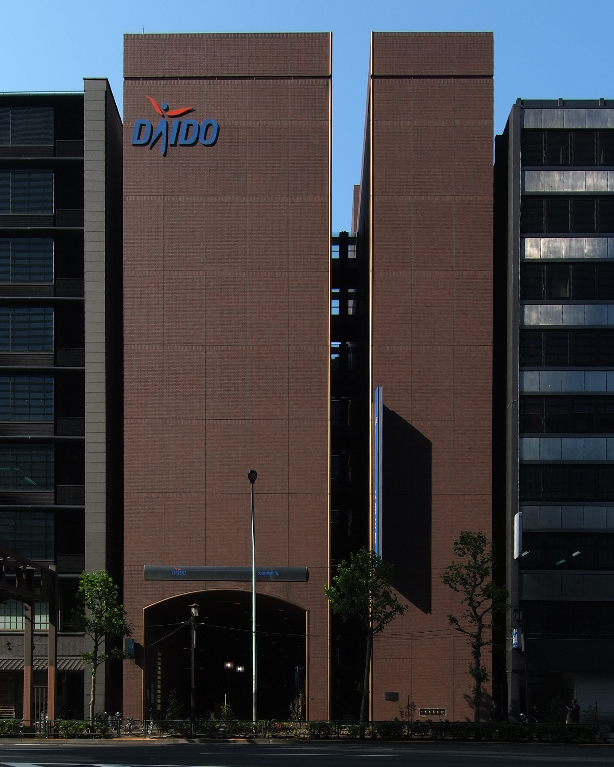 Daido Insurance Company Tokyo Building, at Chuo-ku Tokyo Japan, design by Kisho Kurokawa in 1978.